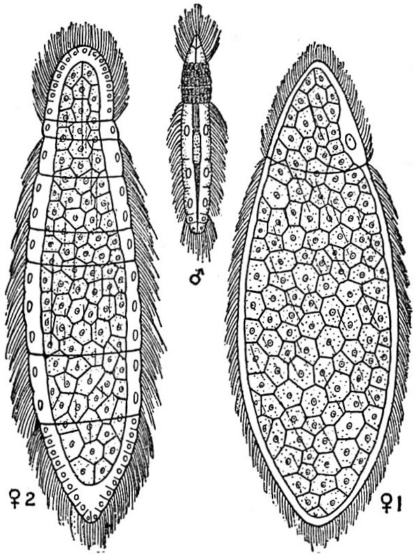 Rhopalura giardii Metschn. from Amphiura squamata.